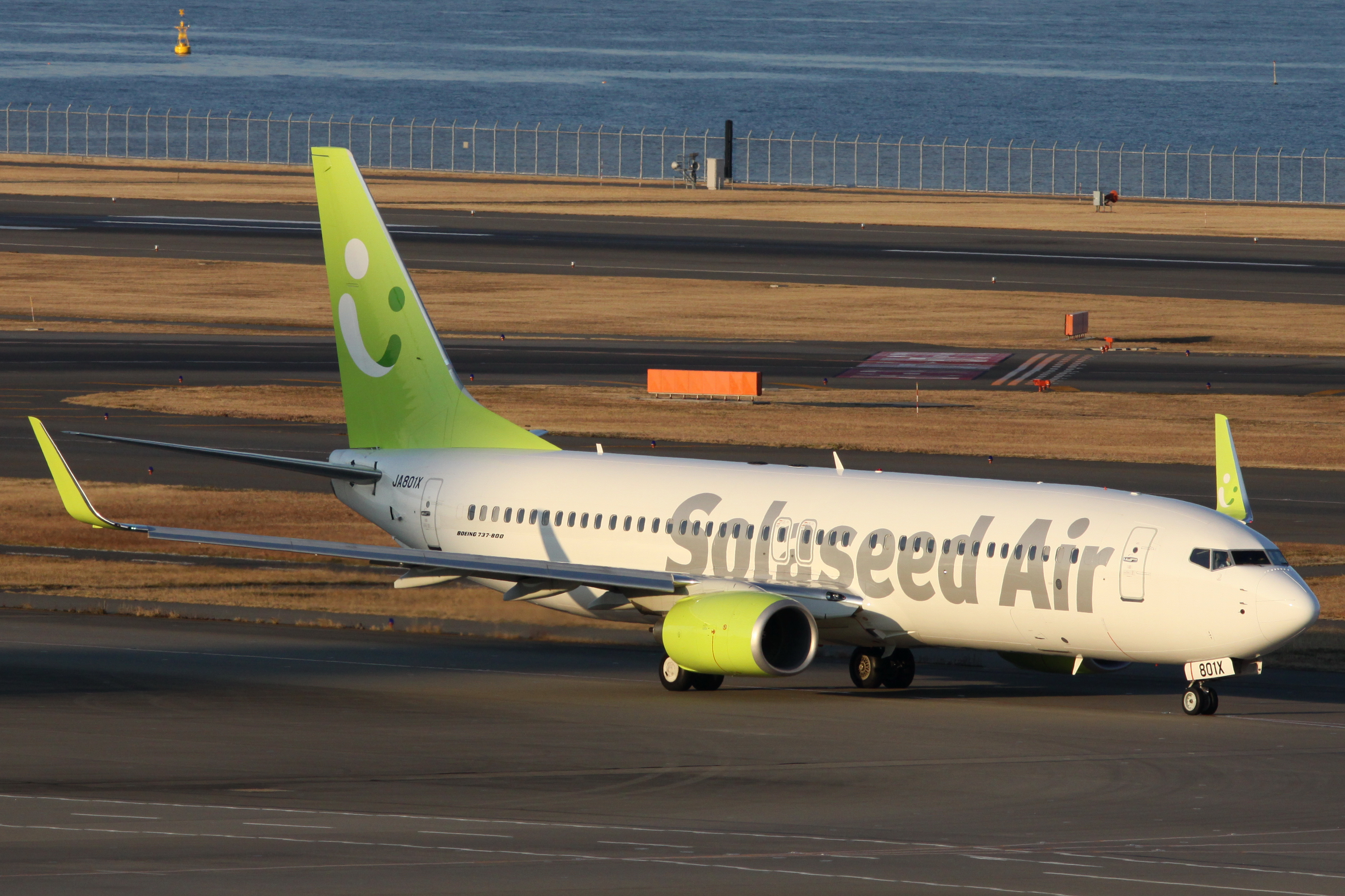 Tokyo International Airport, Boeing 737-81D, c/n:39415, Solaseed Air